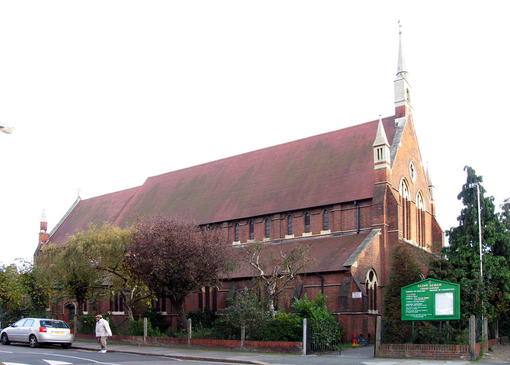 St Alban, Albert Road, Great Ilford, Essex